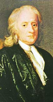 Sir Isaac Newton